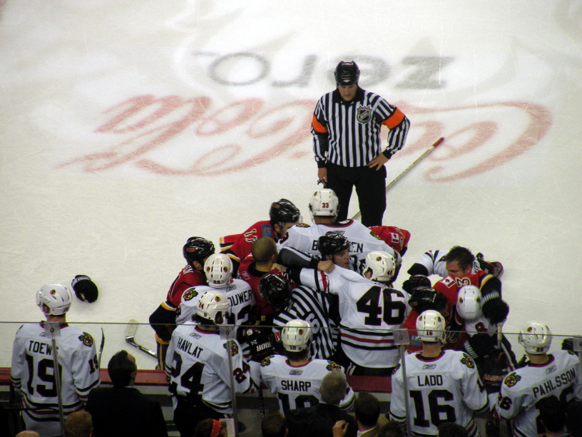 Members of the Calgary Flames and Chicago Blackhawks engage in a scrum during the final seconds of the third game of their Western Conference Quarter-final series during the 2009 Stanley Cup Playoffs